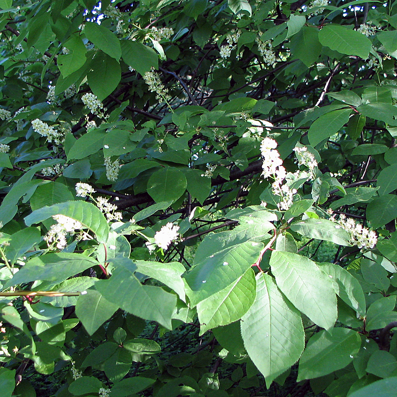 Prunus serotina inflorescens1